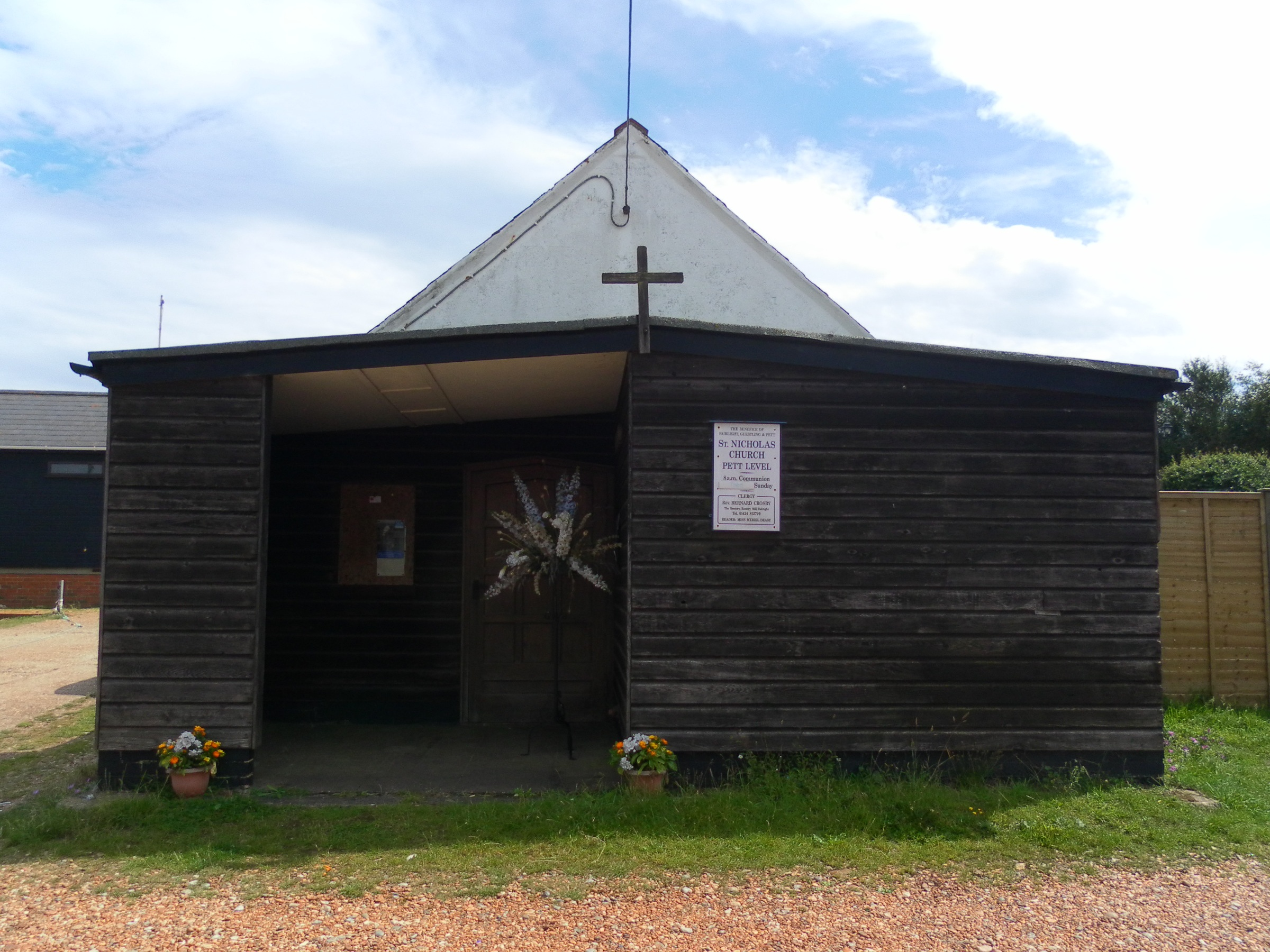 St Nicholas' church, Cliff End, Pett Level, Rother District, East Sussex, England